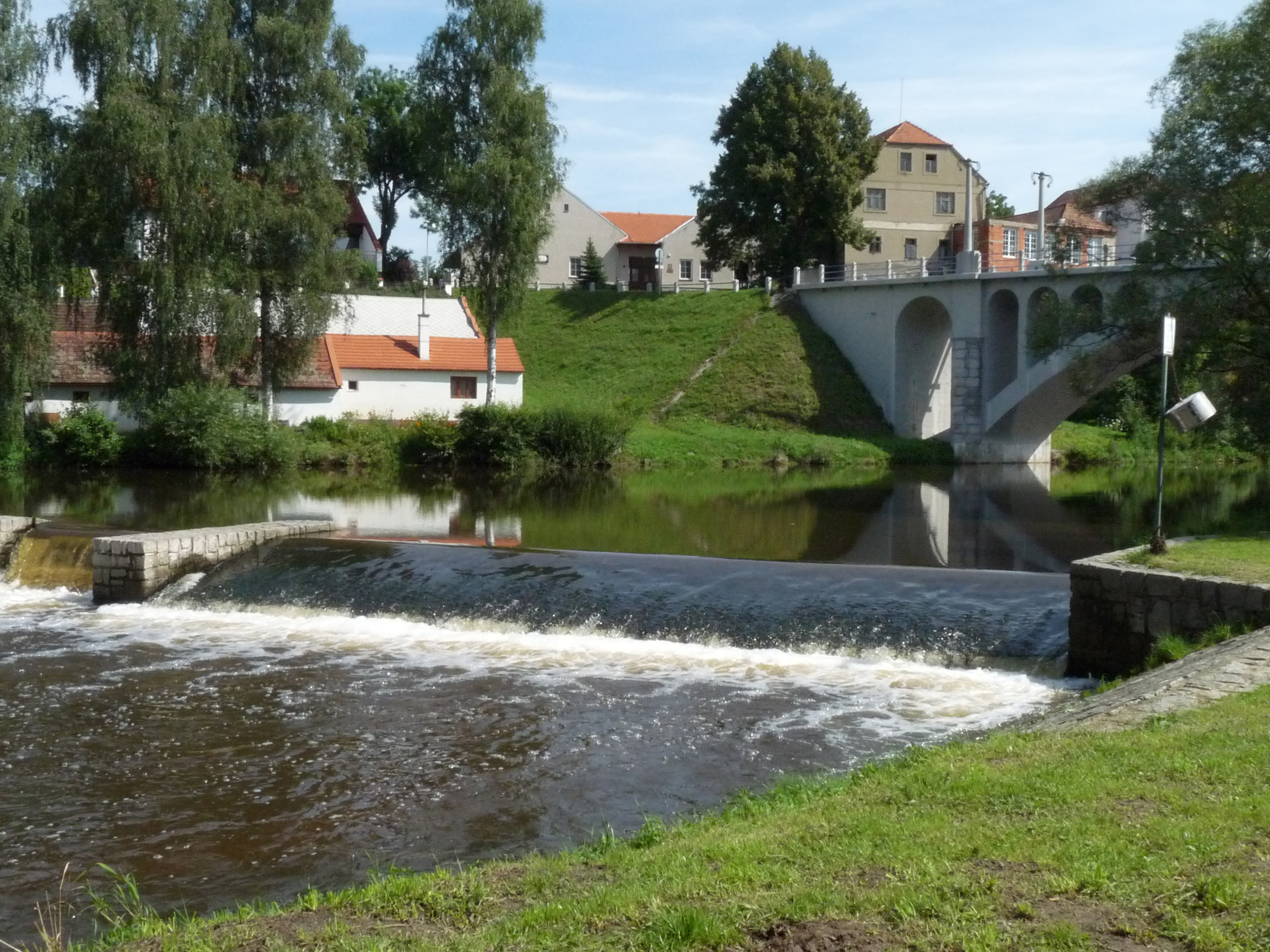 Weir over the Malše river in Straňany (part of Doudleby), České Budějovice district, Czech Republic